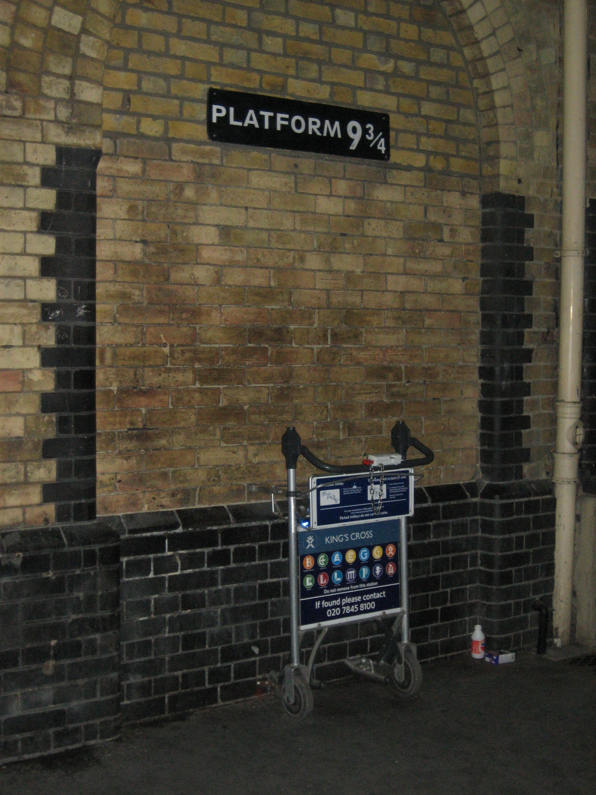 Platform 9¾ at London King's Cross railway station, showing a baggage trolley "disappearing" through the brickwork between platforms 9 and 10.